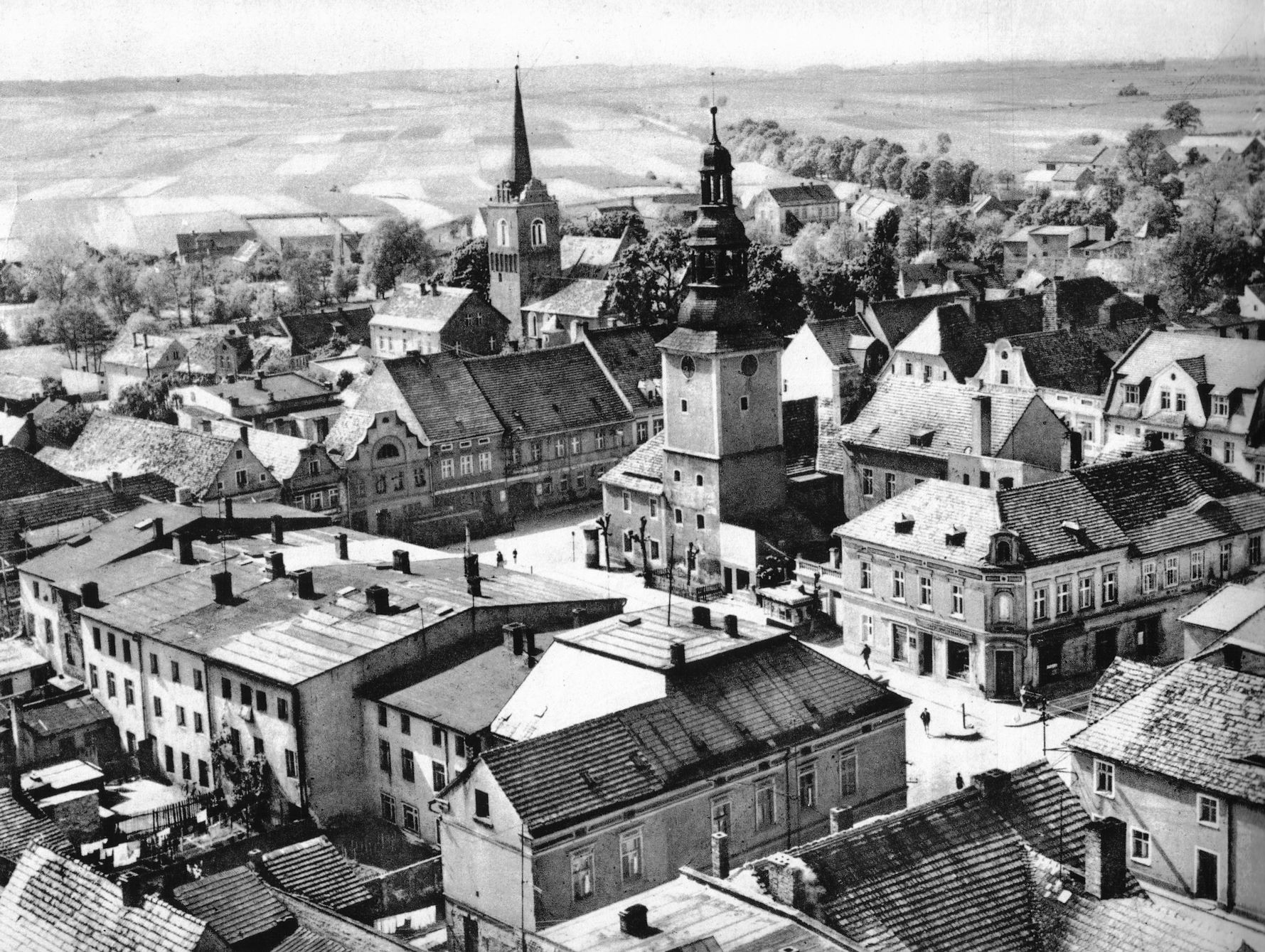 The view of Nowe Miasteczko, Poland in the early 1970s